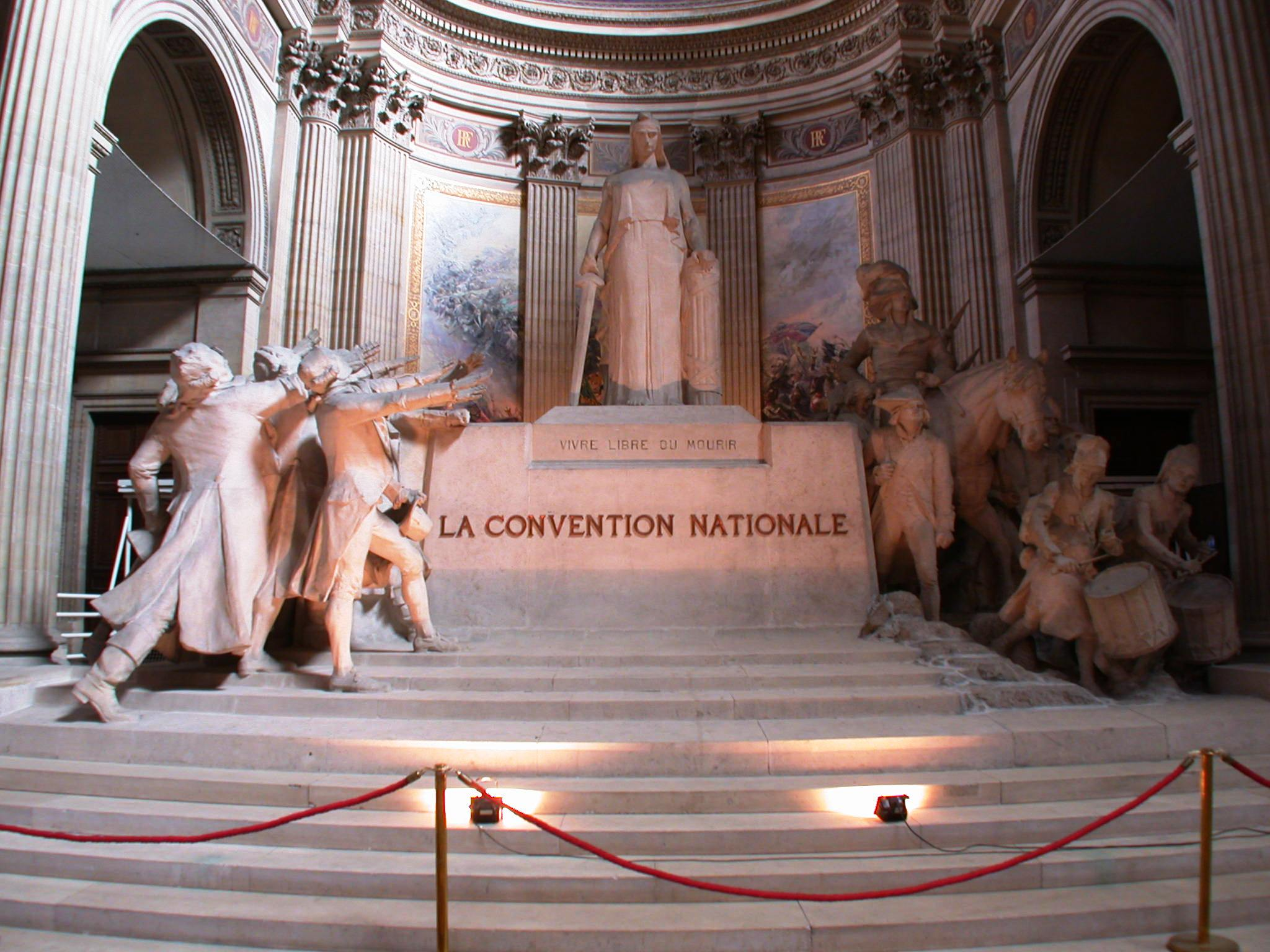 Panthéon, Paris, France. Photo by (WT-shared) Riggwelter, August 2006. Was in category Paris (France) on wikivoyage